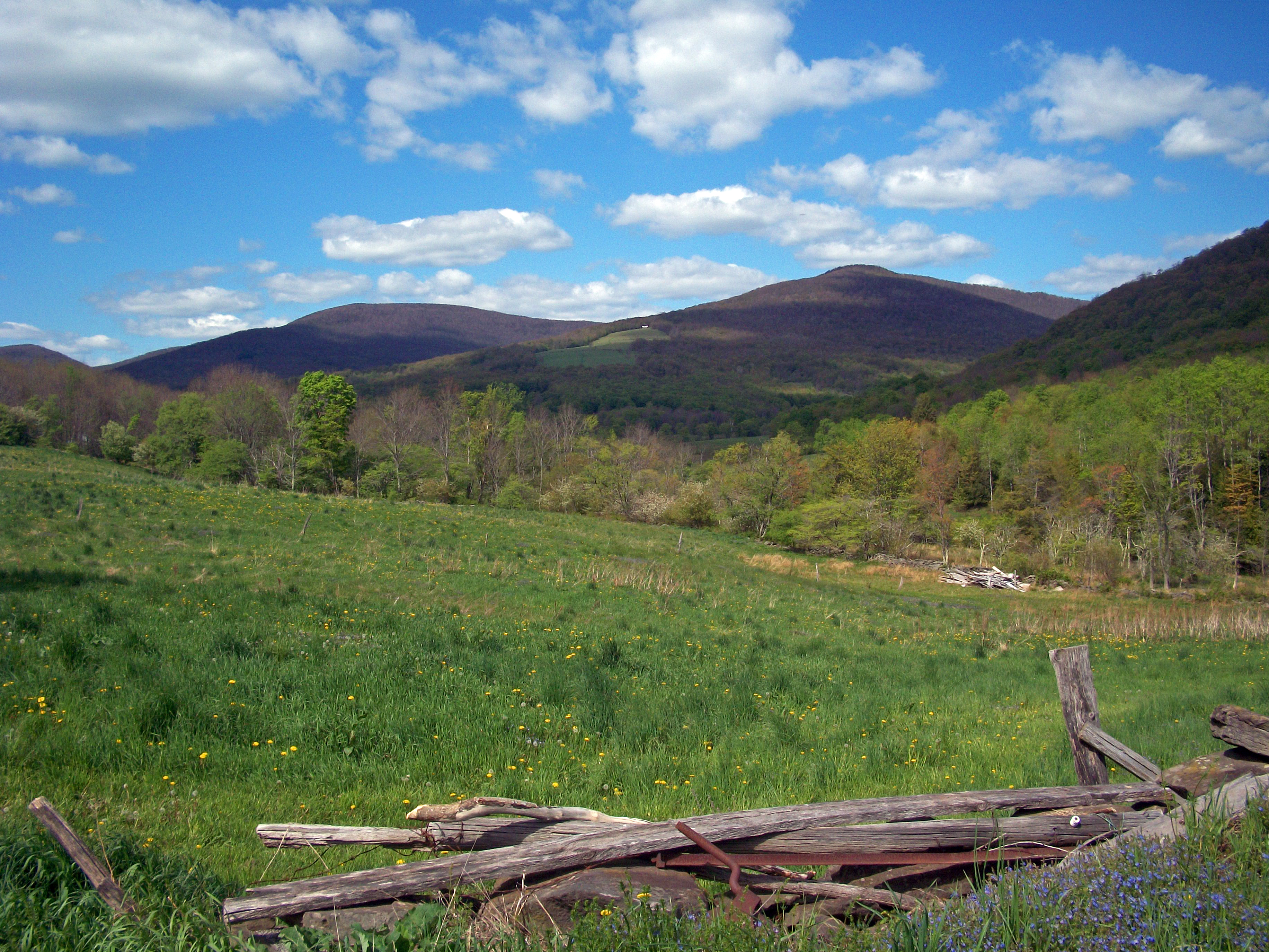 Vly and South Vly mountains, the former a High Peak of the Catskills, Halcott Center, NY, USA